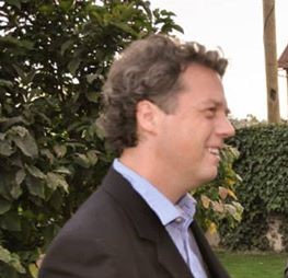 Tino Mamić (1972-)